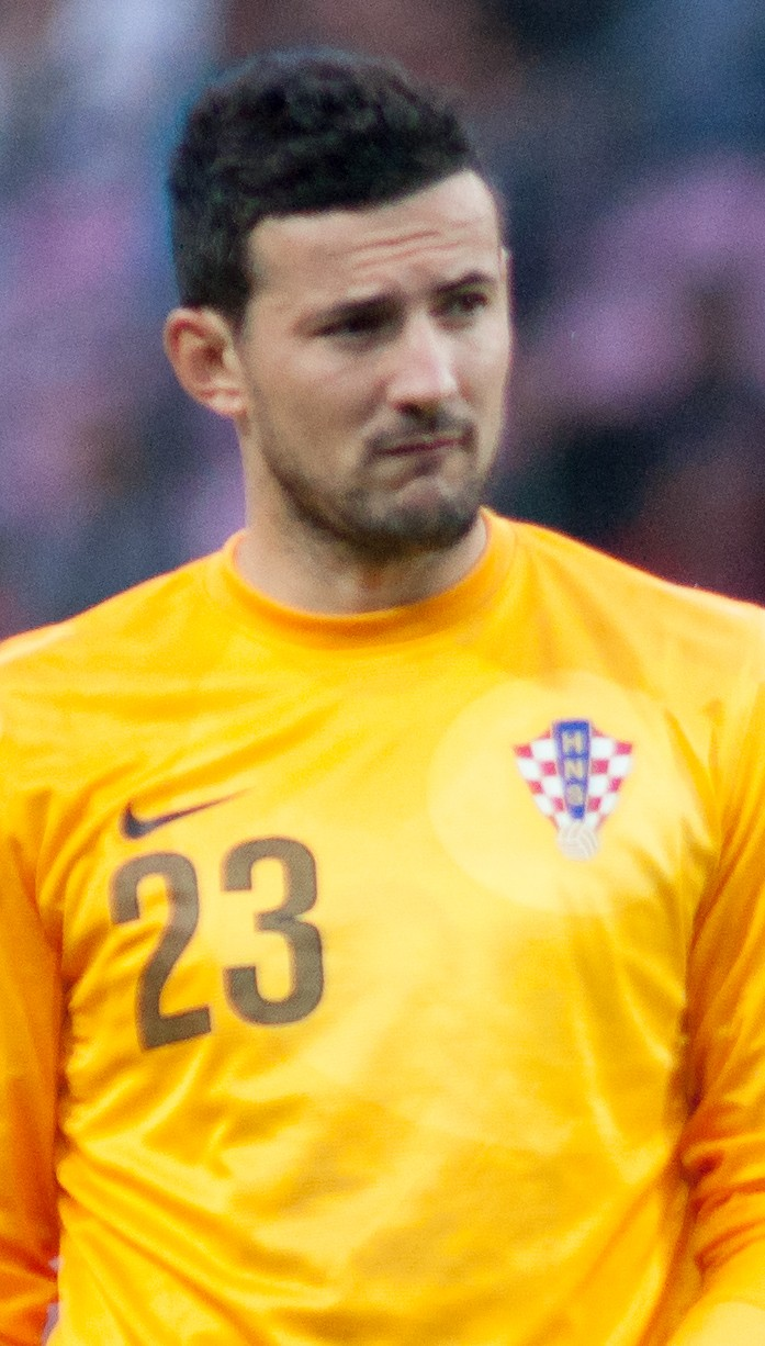 Croatia vs. Portugal, 10th June 2013